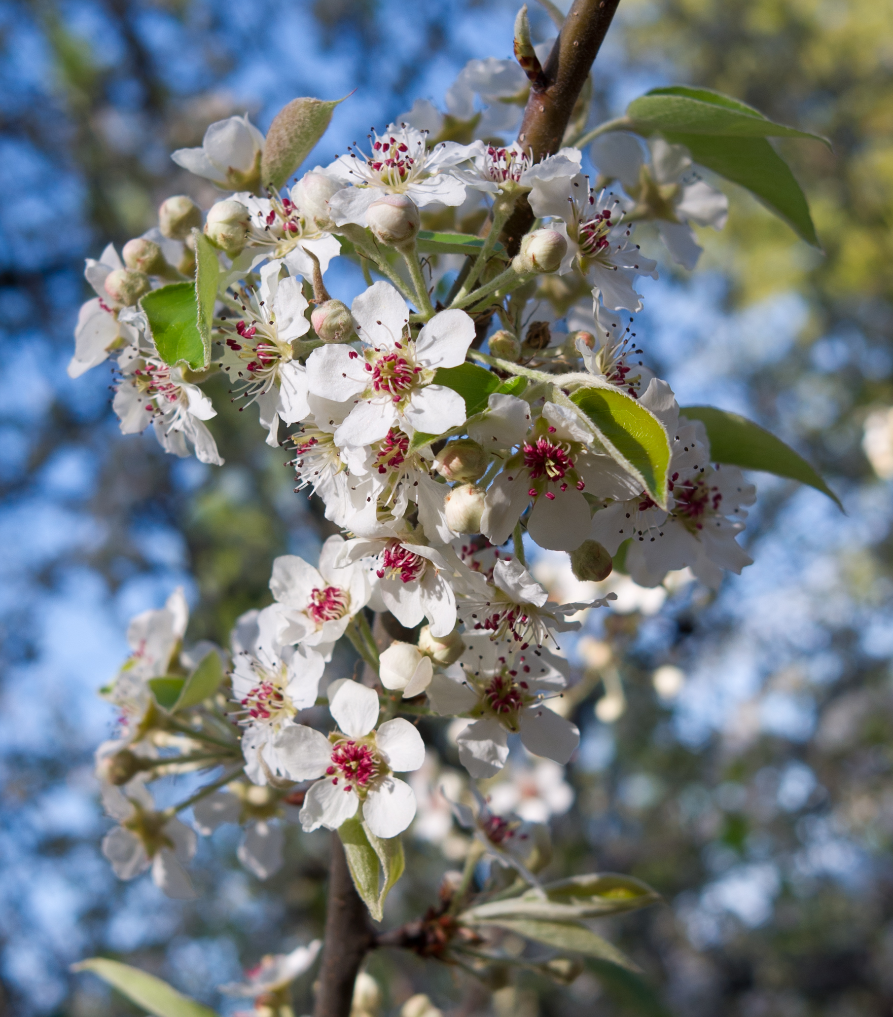 Flowers of Pyrus pashia (Wild Himalayan Pear). Picture taken at Quarryhill Botanical Garden, Glen Ellen, California.